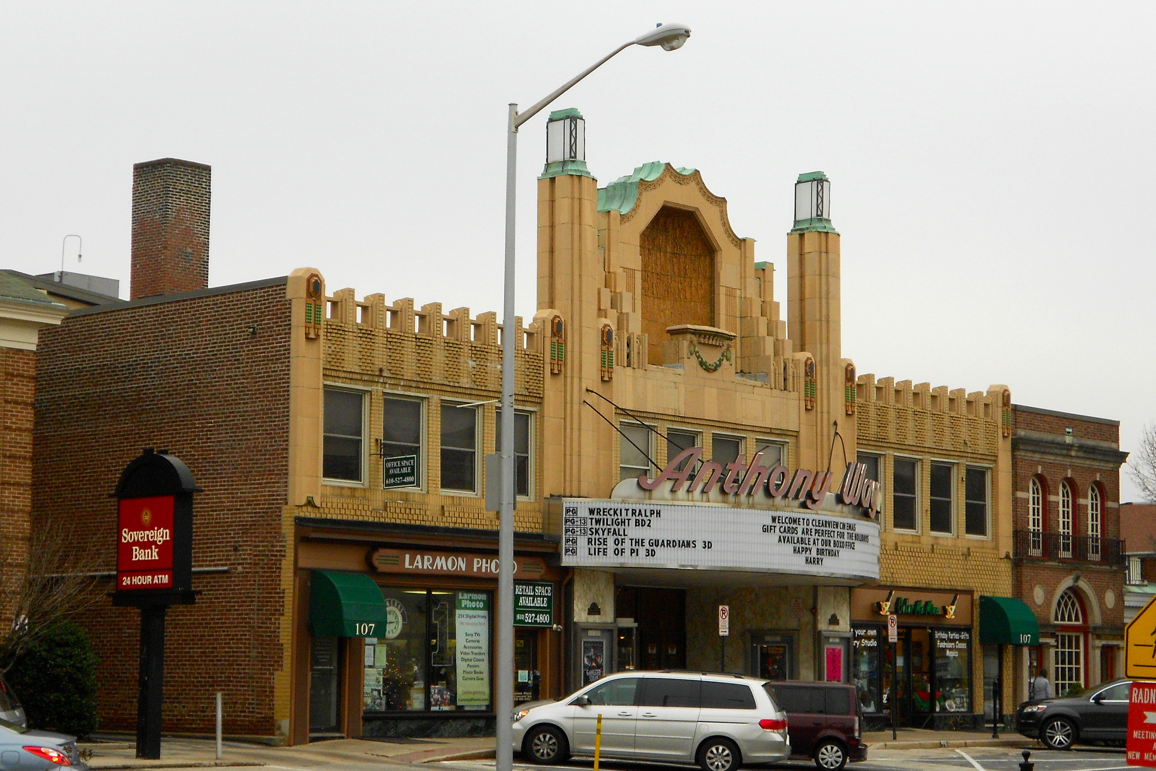 Downtown Wayne Historic District on the NRHP since September 5, 2012. The district is roughly bounded by Louella Ct., West Ave., and S. Wayne Ave., in Wayne, Radnor Township, Delaware County, Pennsylvania. This is the Anthony Wayne Theater, possible the best known building in the district.